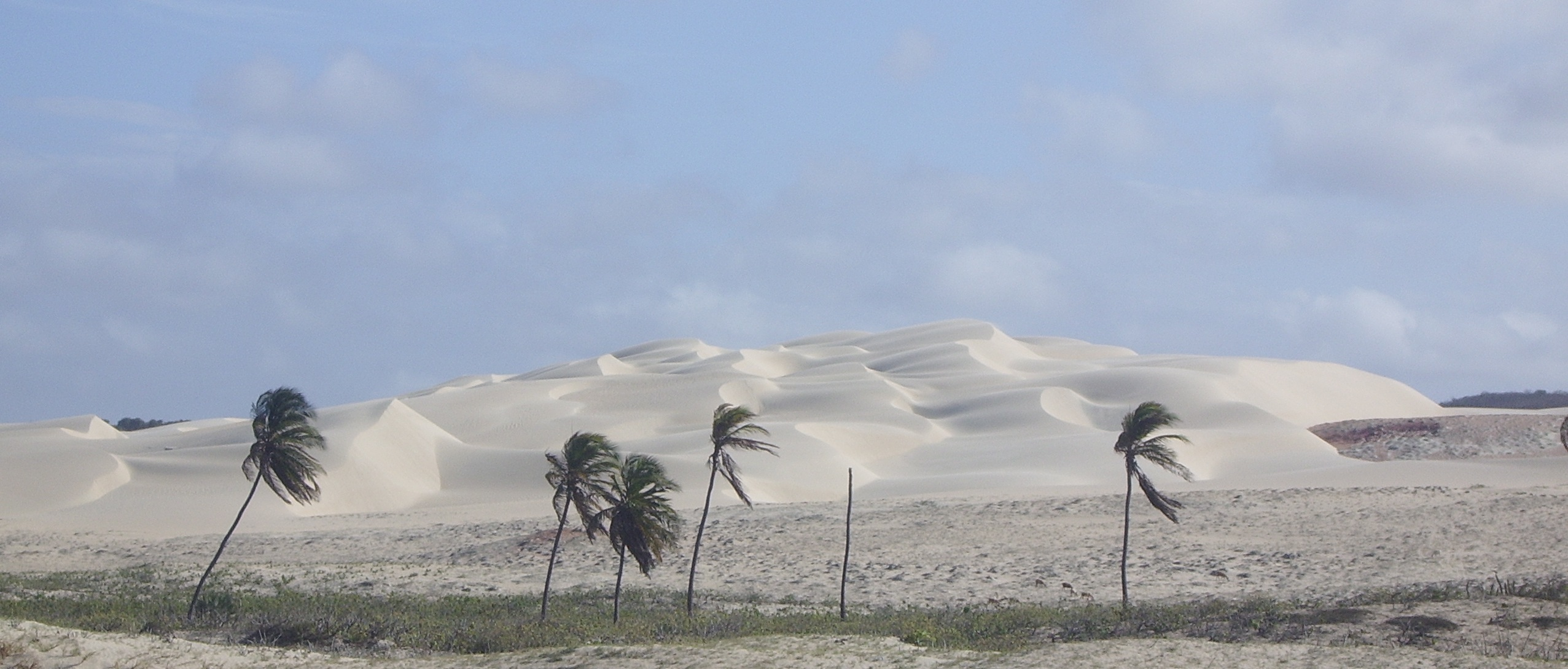 Ponta do Mel beach in Rio Grande do Norte, Brazil.